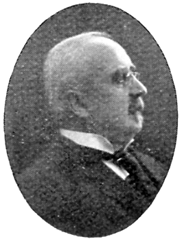 Image scanned from the book "Svenskt Porträttgalleri XX - Arkitekter, Bildhuggare, Målare m.fl. " ("Swedish Portrait Gallery XX - Architects, Sculptors, Painters, ") published 1901